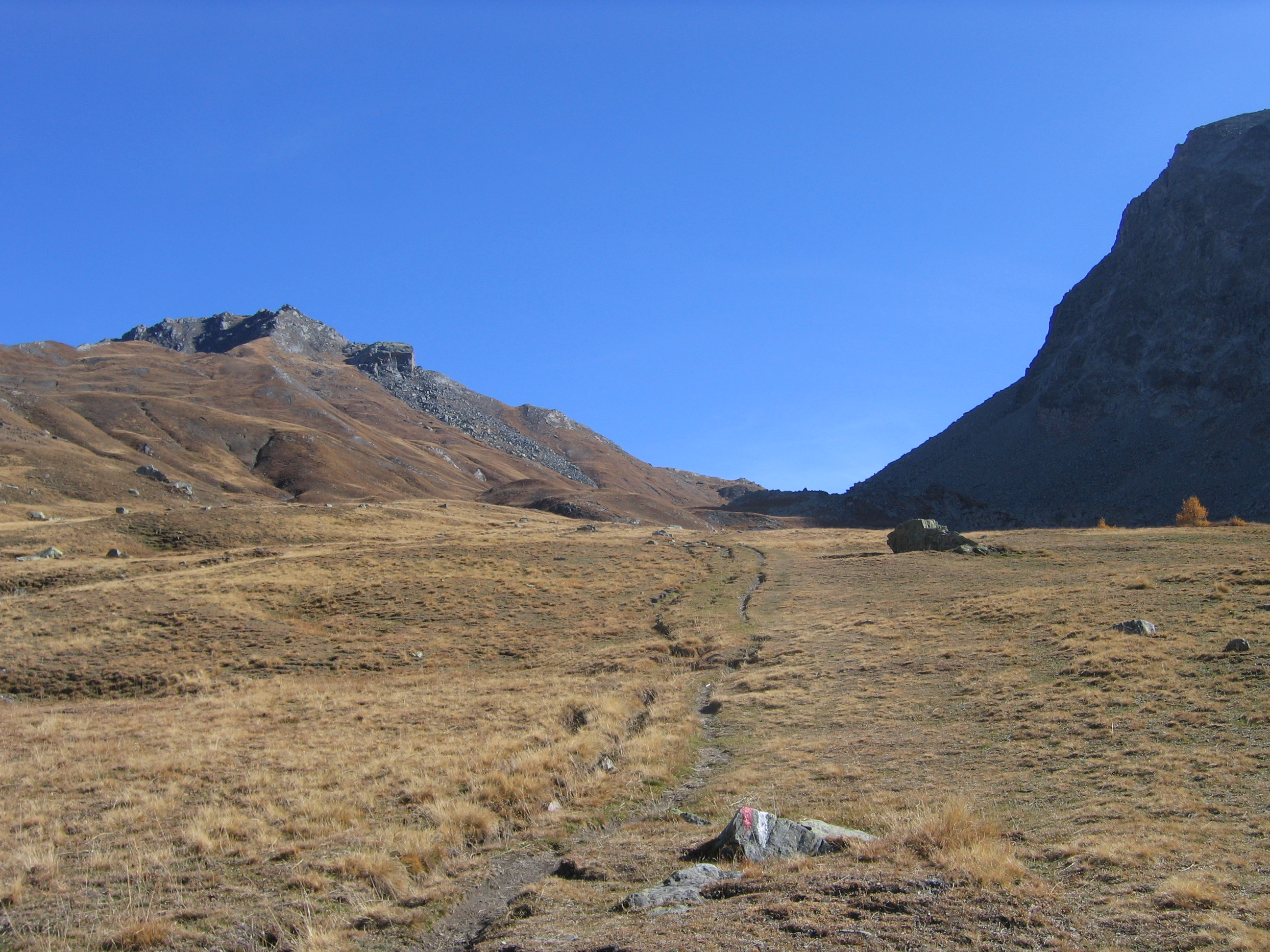 col d'Urine (mountain pass) - southern Alps - French side